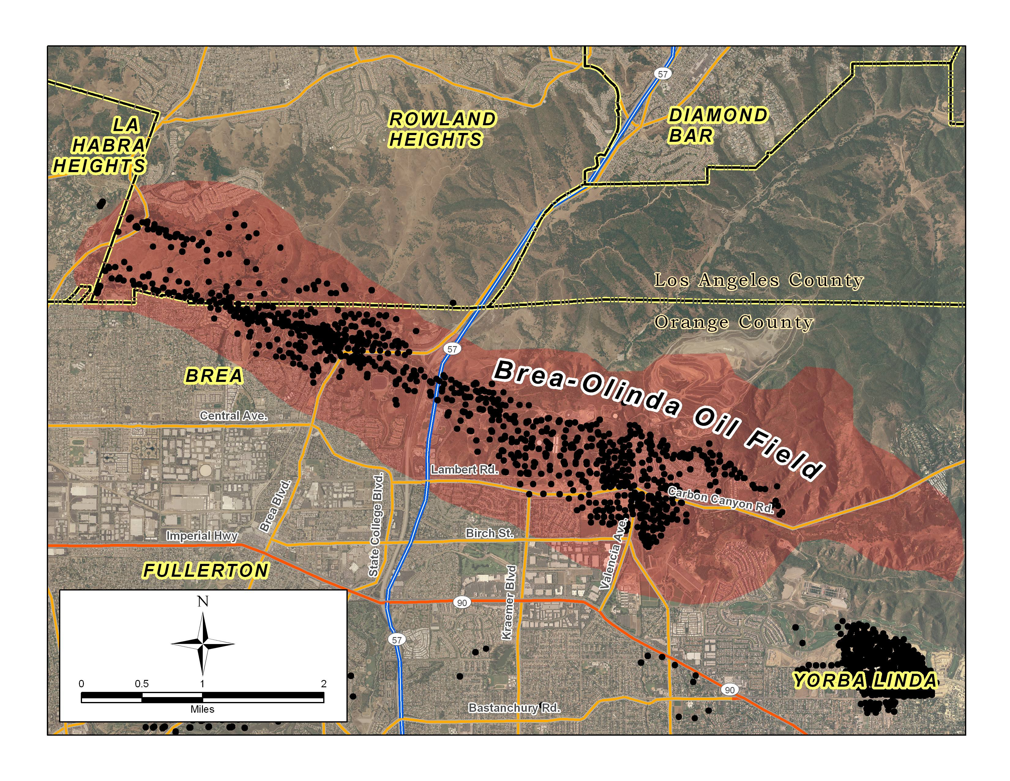 Detail of Brea-Olinda field in LA and Orange counties; all data shown is in the public domain; by self in ArcGIS 9.3